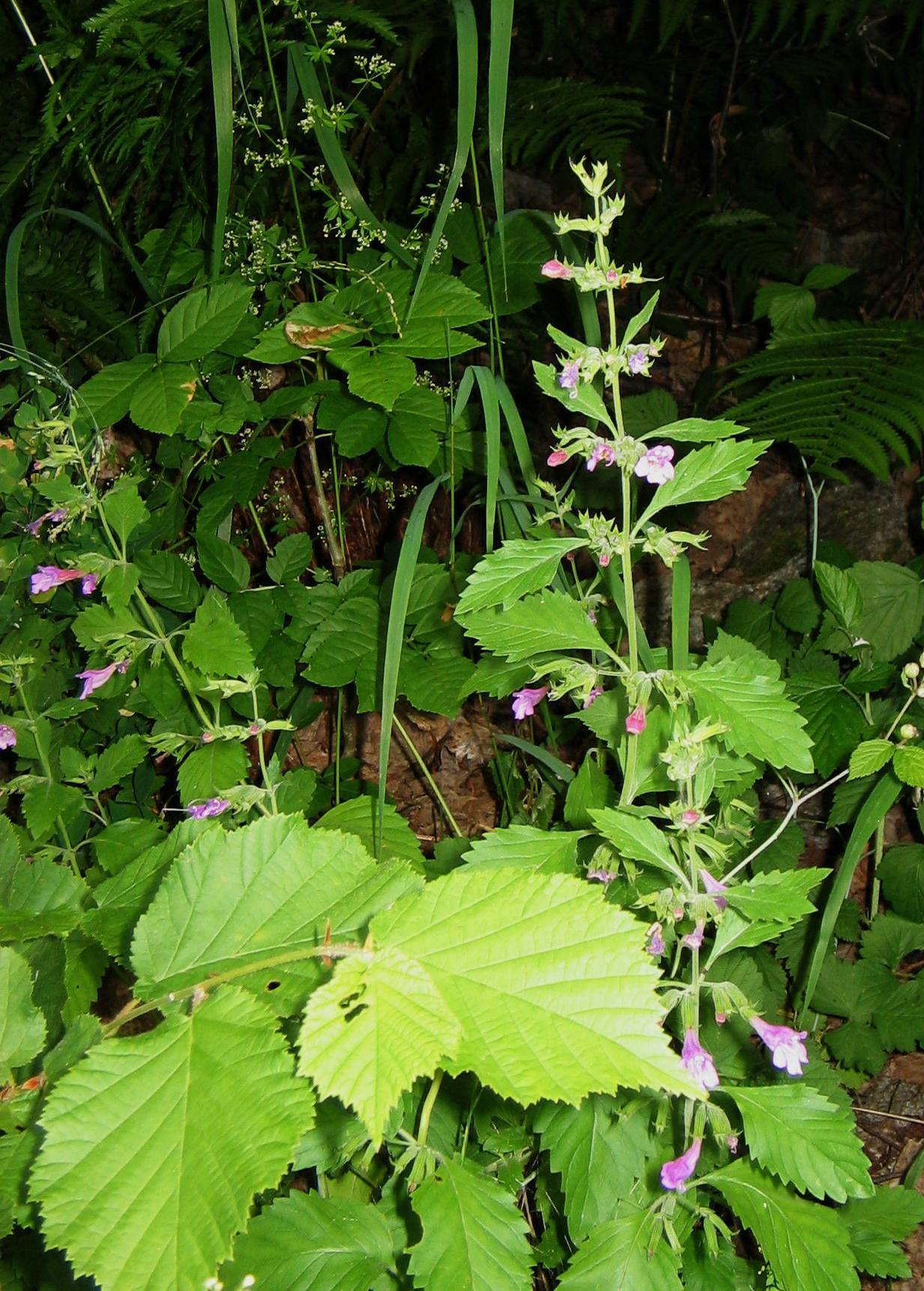 Calamintha grandiflora